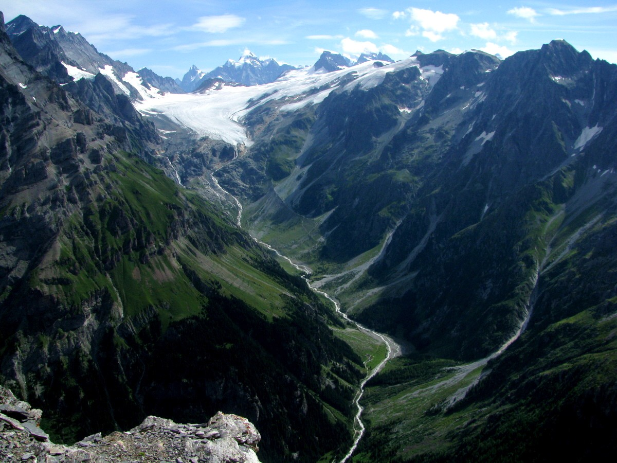 Upper Gasteretal and Kanderfirn, Switzerland